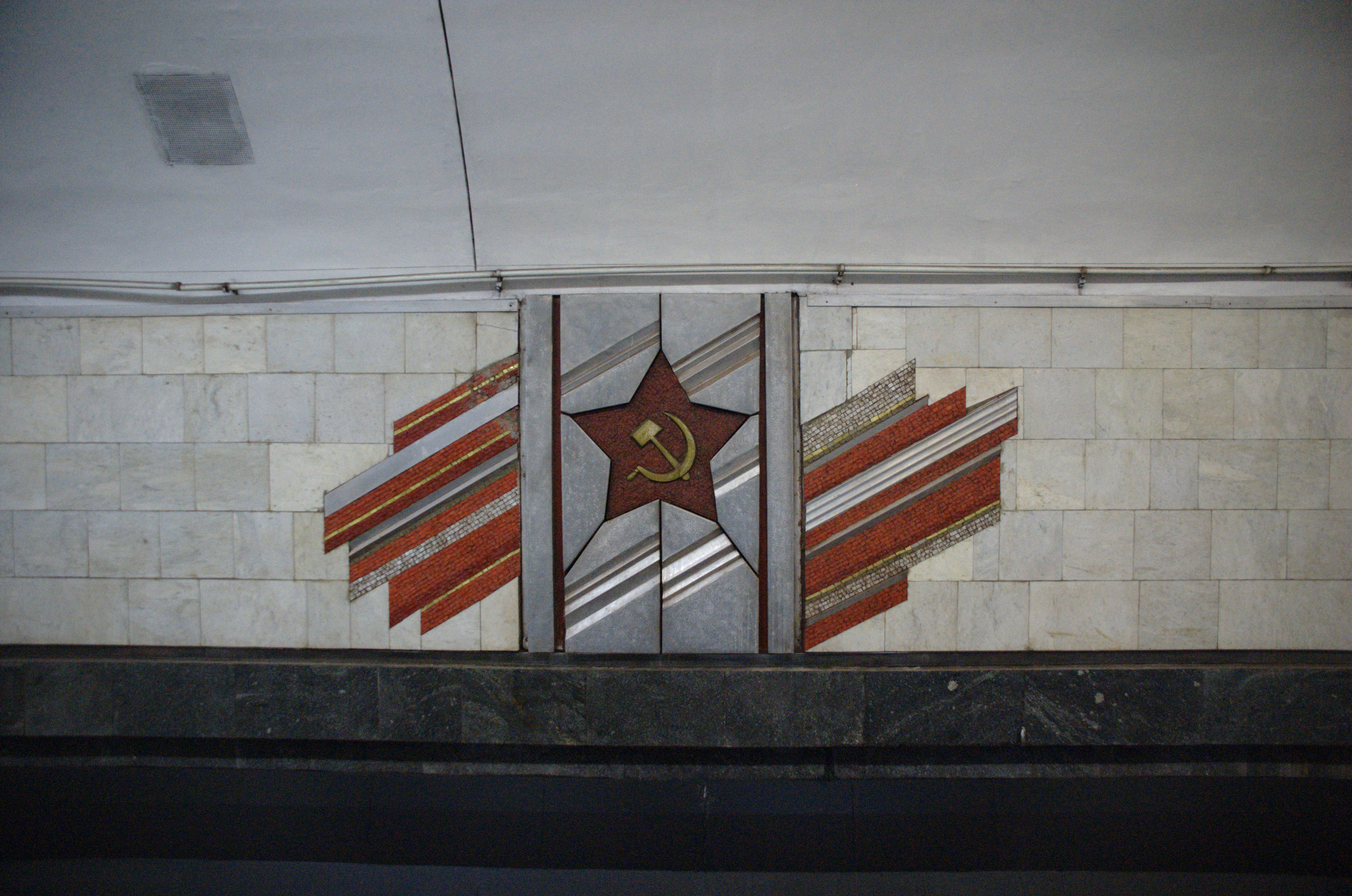 Detail of the wall at the metro station Palats Ukraina in Kiev